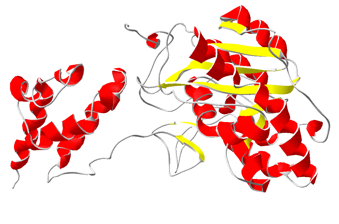 Partial crystal structure of the yeast exosome component Rrp6